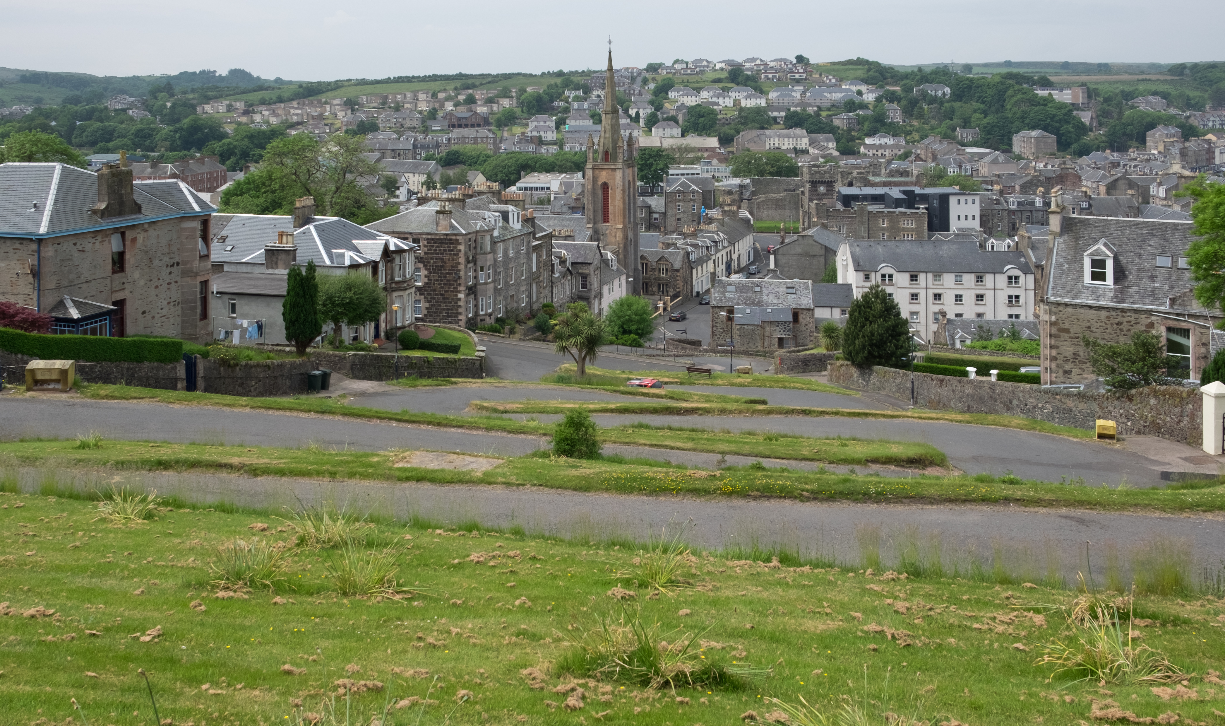 Rothesay, Isle of Bute viewed from part way up Serpentine Road